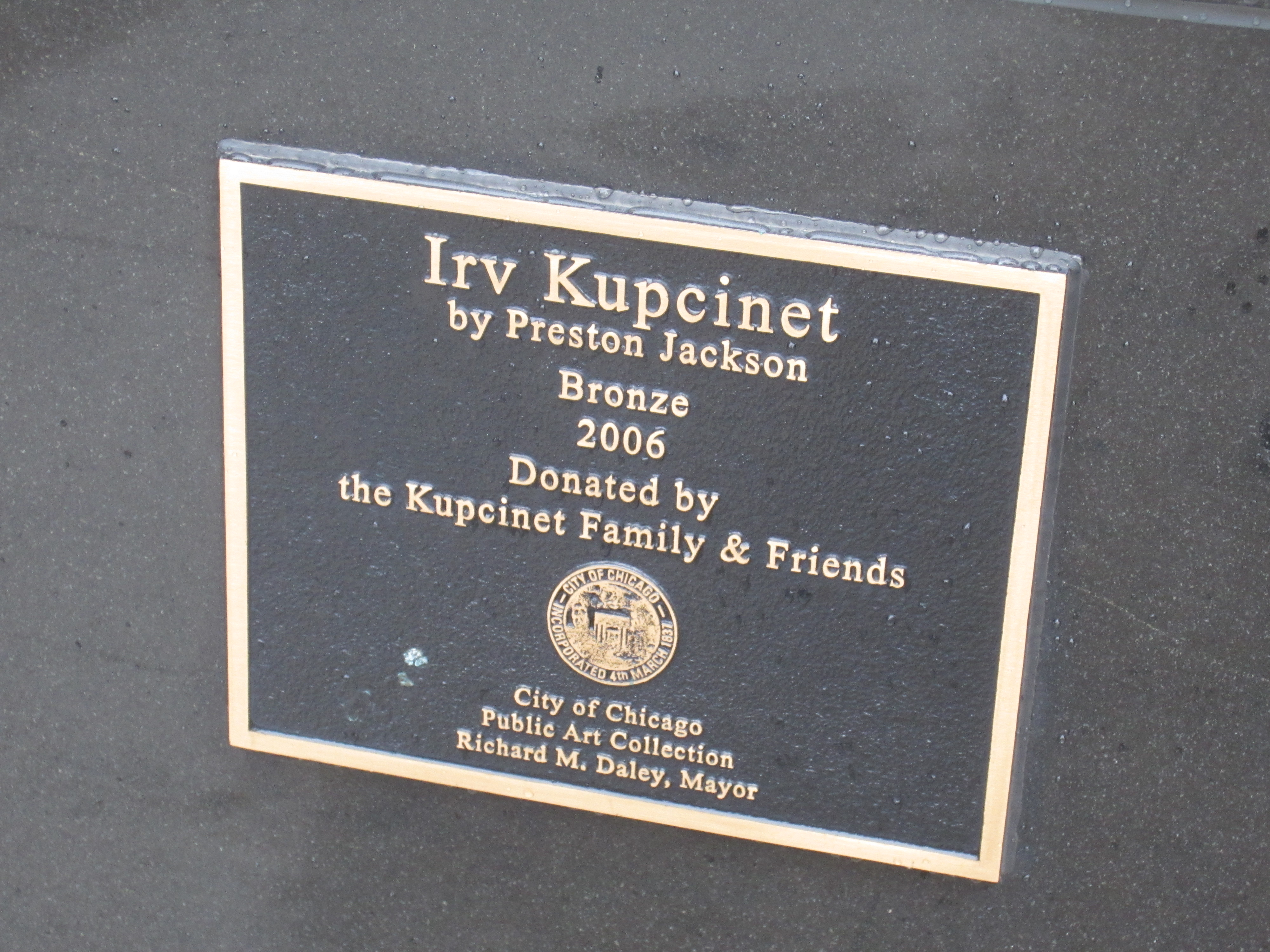 Chicago, Illinois, June 2015